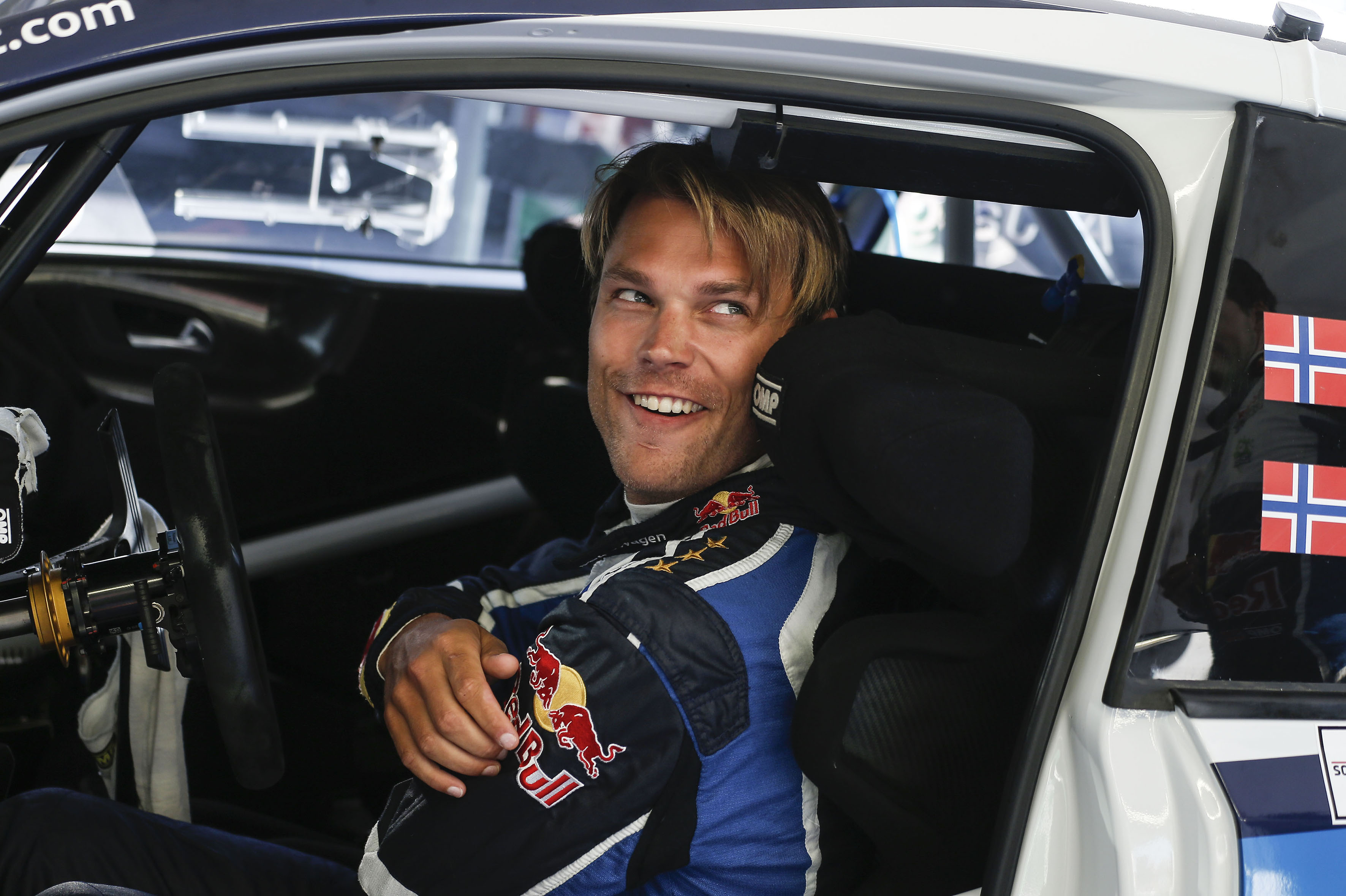 Andreas Mikkelsen at the 2016 Rally d'Italia Sardegna.